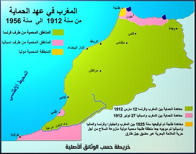 French-Spanish-International protectorates in Morocco